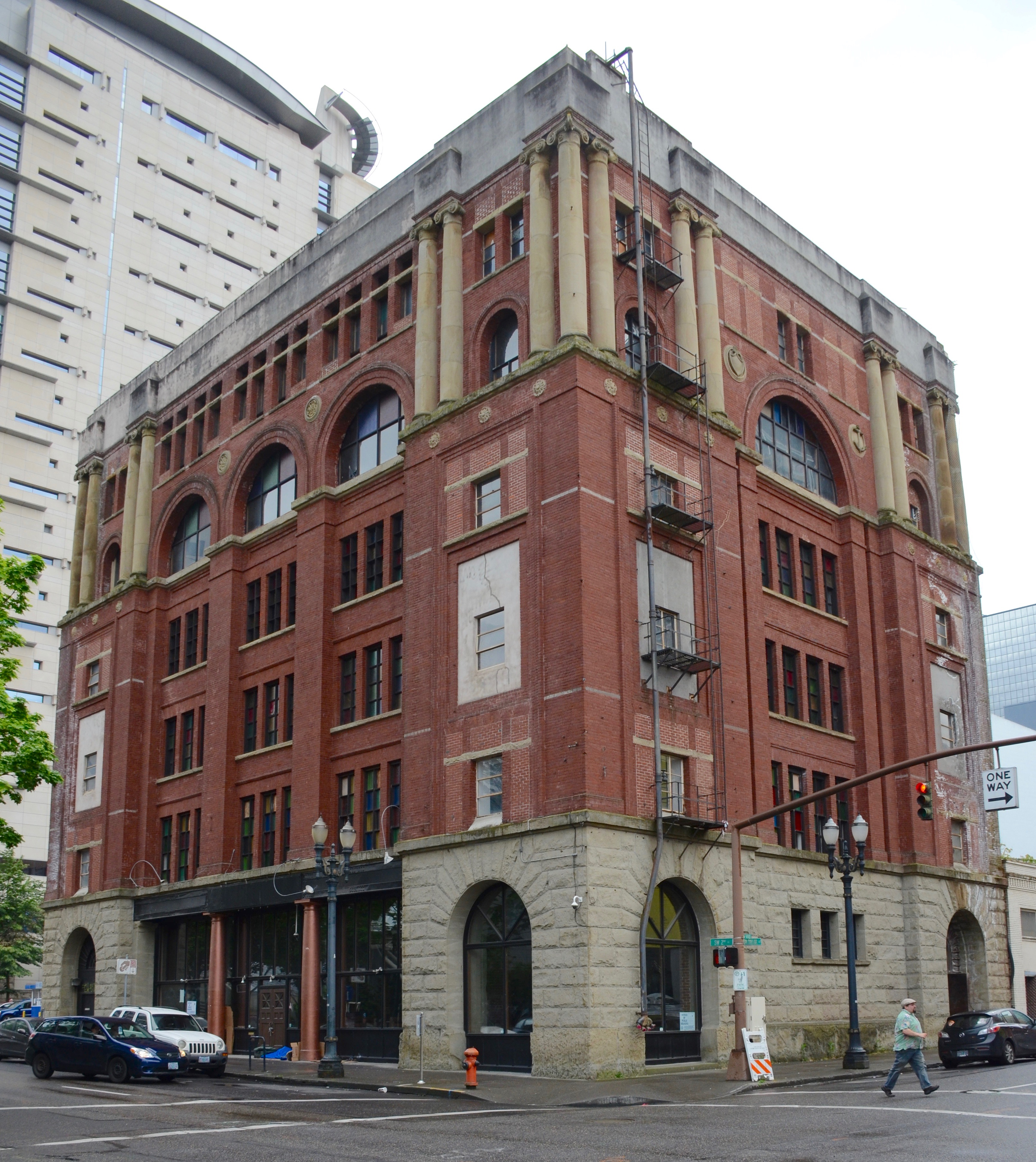 The former Ancient Order of United Workmen Temple building (built in 1892), at 2nd and Taylor in downtown Portland, Oregon. It was demolished in 2017.